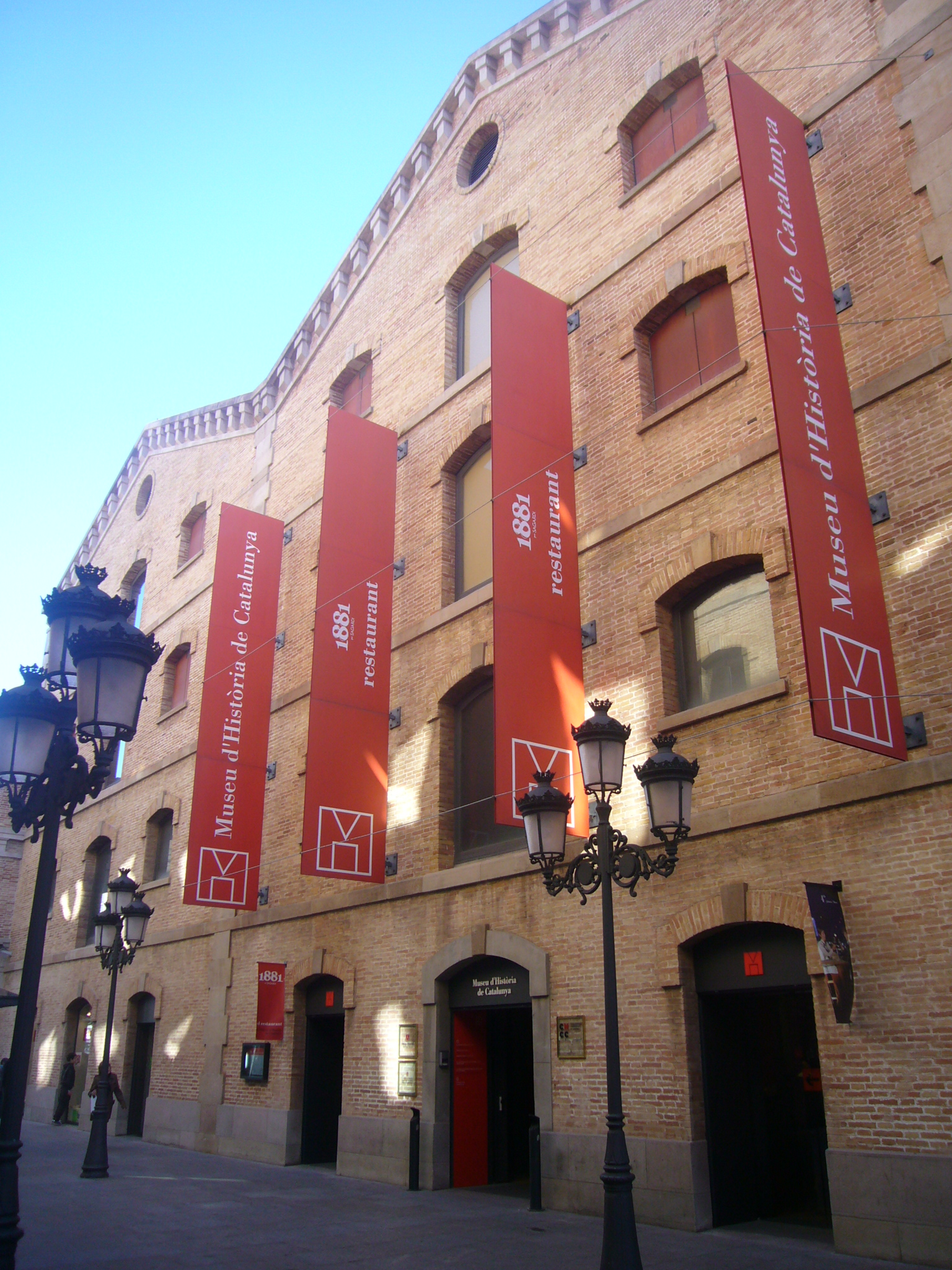 Magatzems generals del Dipòsit